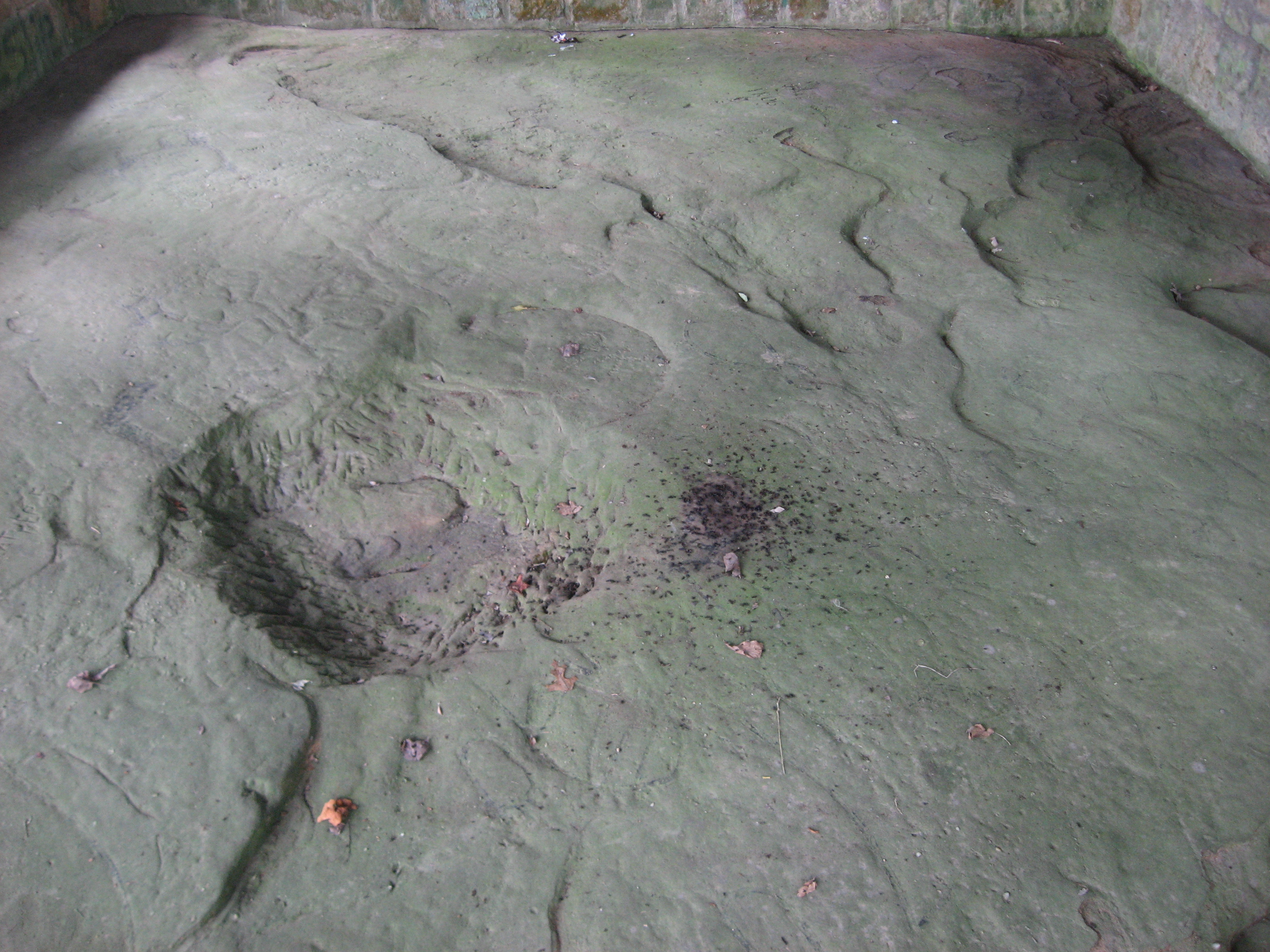 Comprehensive view from the north of the Leo Petroglyph, located west of Leo in Jackson Township, Jackson County, Ohio, United States. Carved by the prehistoric Fort Ancient culture, it is listed on the National Register of Historic Places.